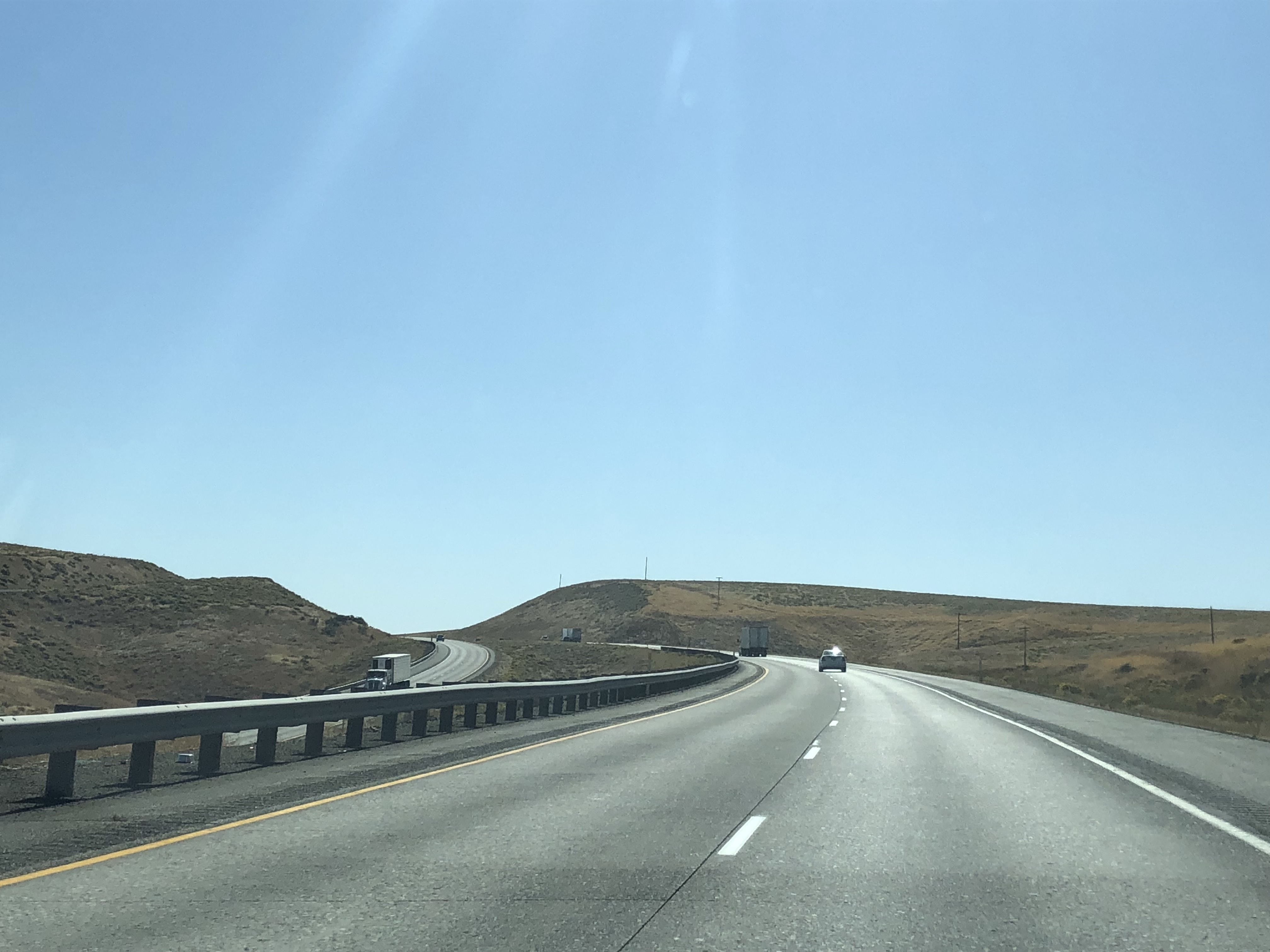 Interstate 82 eastbound where it crosses the crest of the Horse Heaven Hills south of Kennewick, Washington.